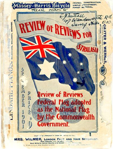 The edition of the Review of Reviews; front cover signed by Egbert Nuttall, after the winning designers of the 1901 Federal Flag design competition were announced. Grateful acknowledgement to the State Library of New South Wales for approval to reproduce portion of the Egbert Nuttall historical collection.